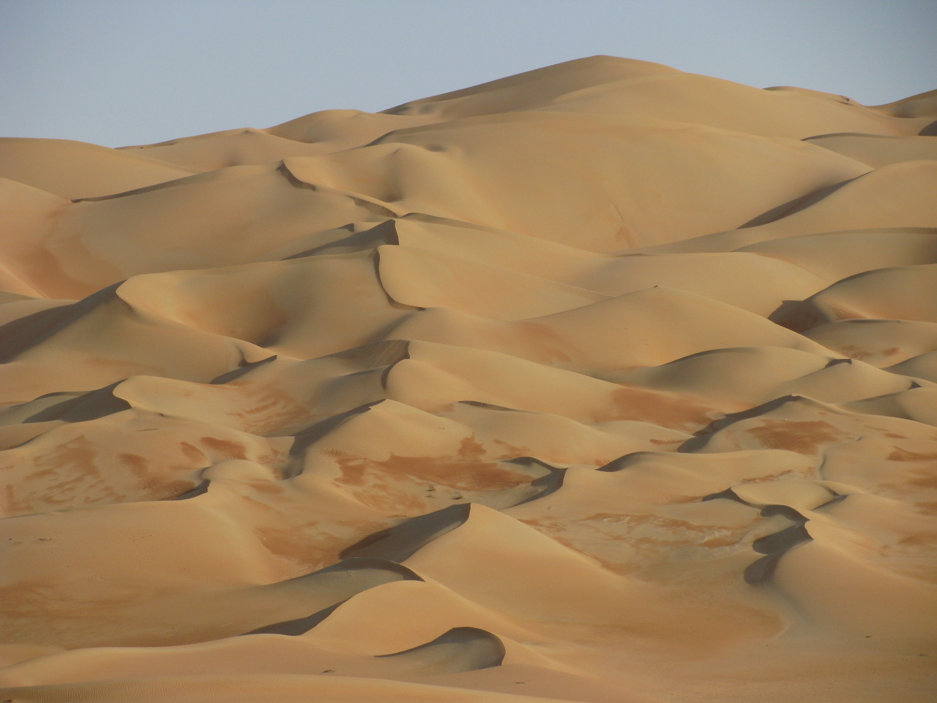 This was a much larger dune which has formed into a complex range of mini-dunes